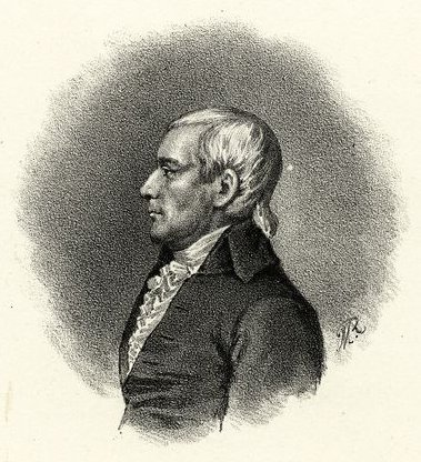 James Kinsey, Delegate to Continental Congress